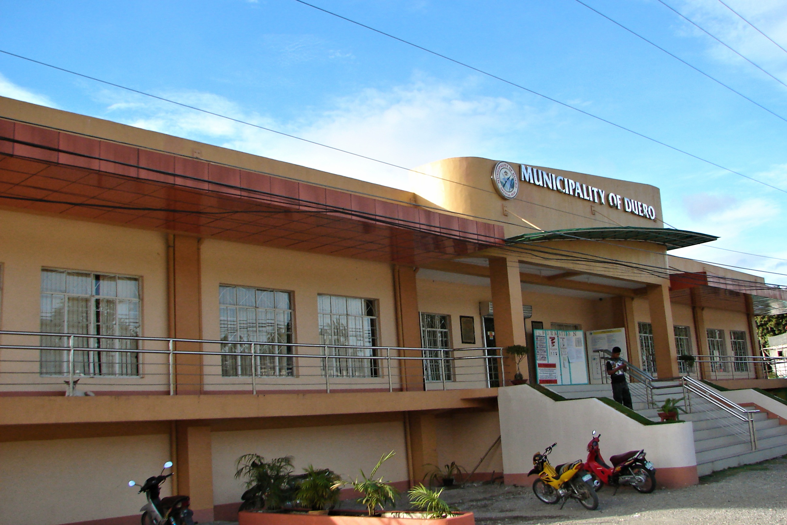 Town hall of Duero, Bohol, Philippines